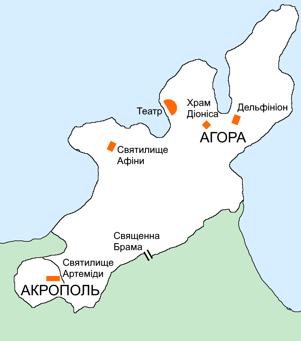 Map of Miletus in the Archaic Time